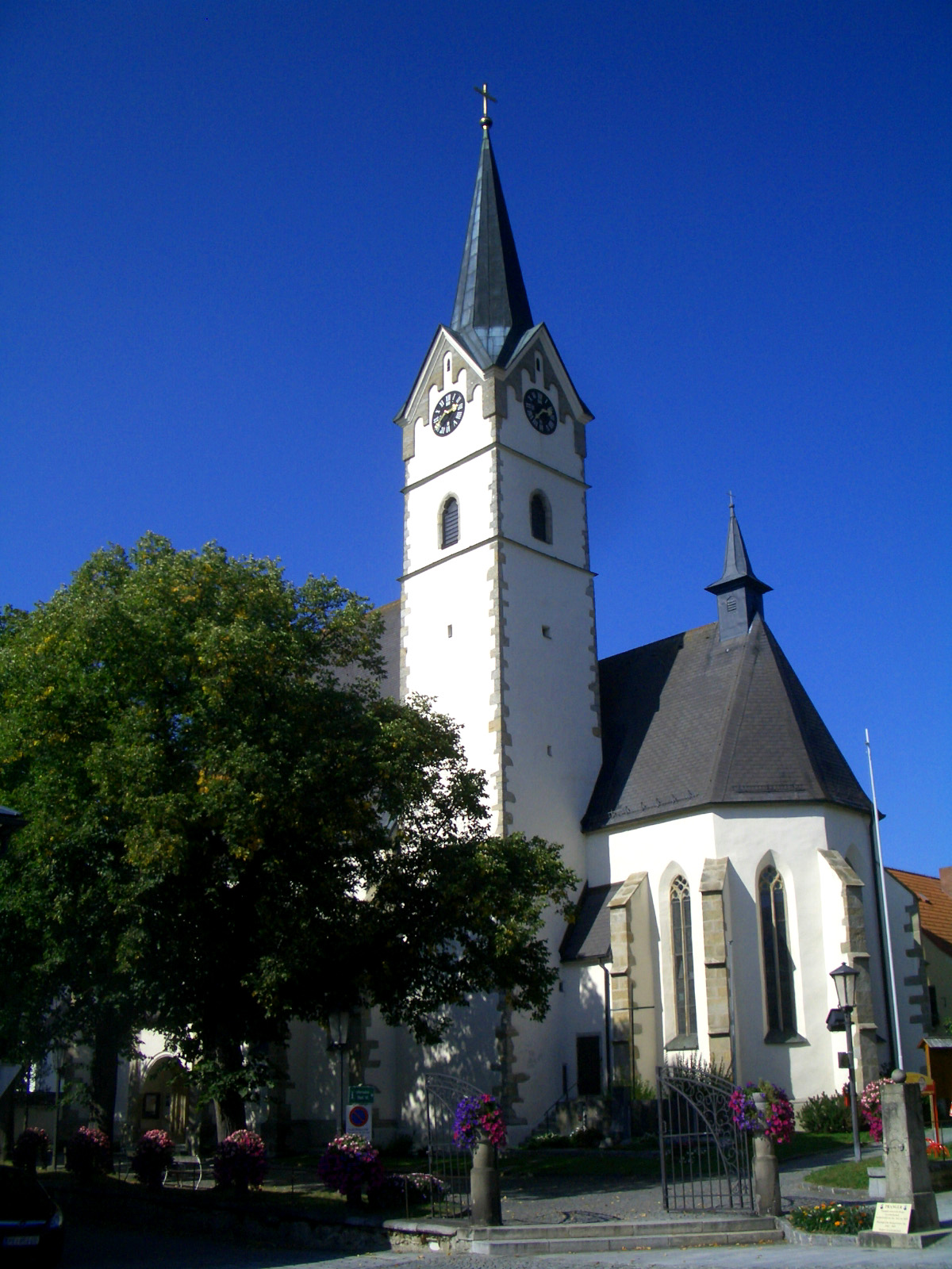 Church of Königswiesen, Upper Austria